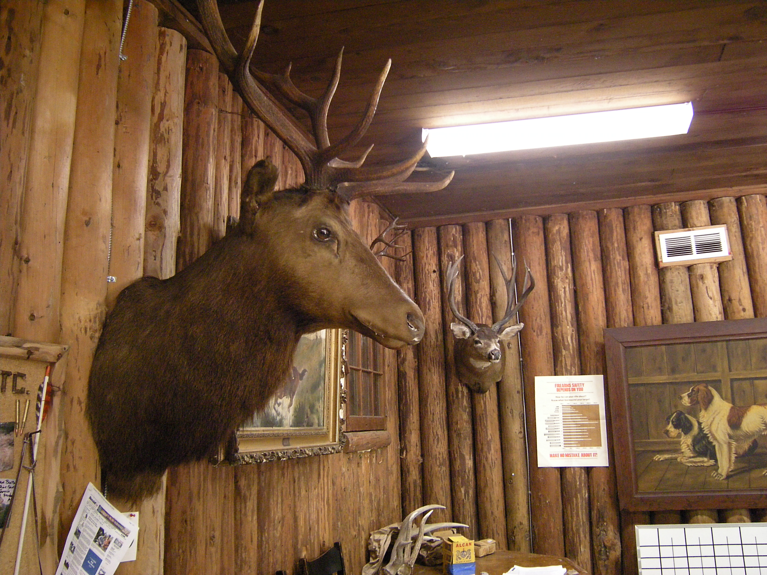 Mounted elk head inside Issaquah Sportsmen's Club lodge, Issaquah, Washington. The building was built by the Works Progress Administration (WPA) in 1937. It is listed on the National Register of Historic Places and as a King County landmark.